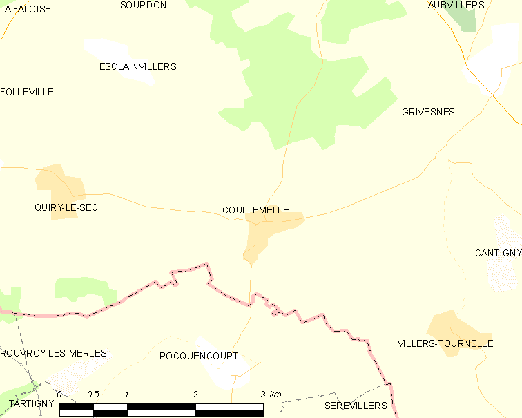 Map of French municipality Coullemelle